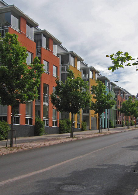 Lahti - Laaksokatu